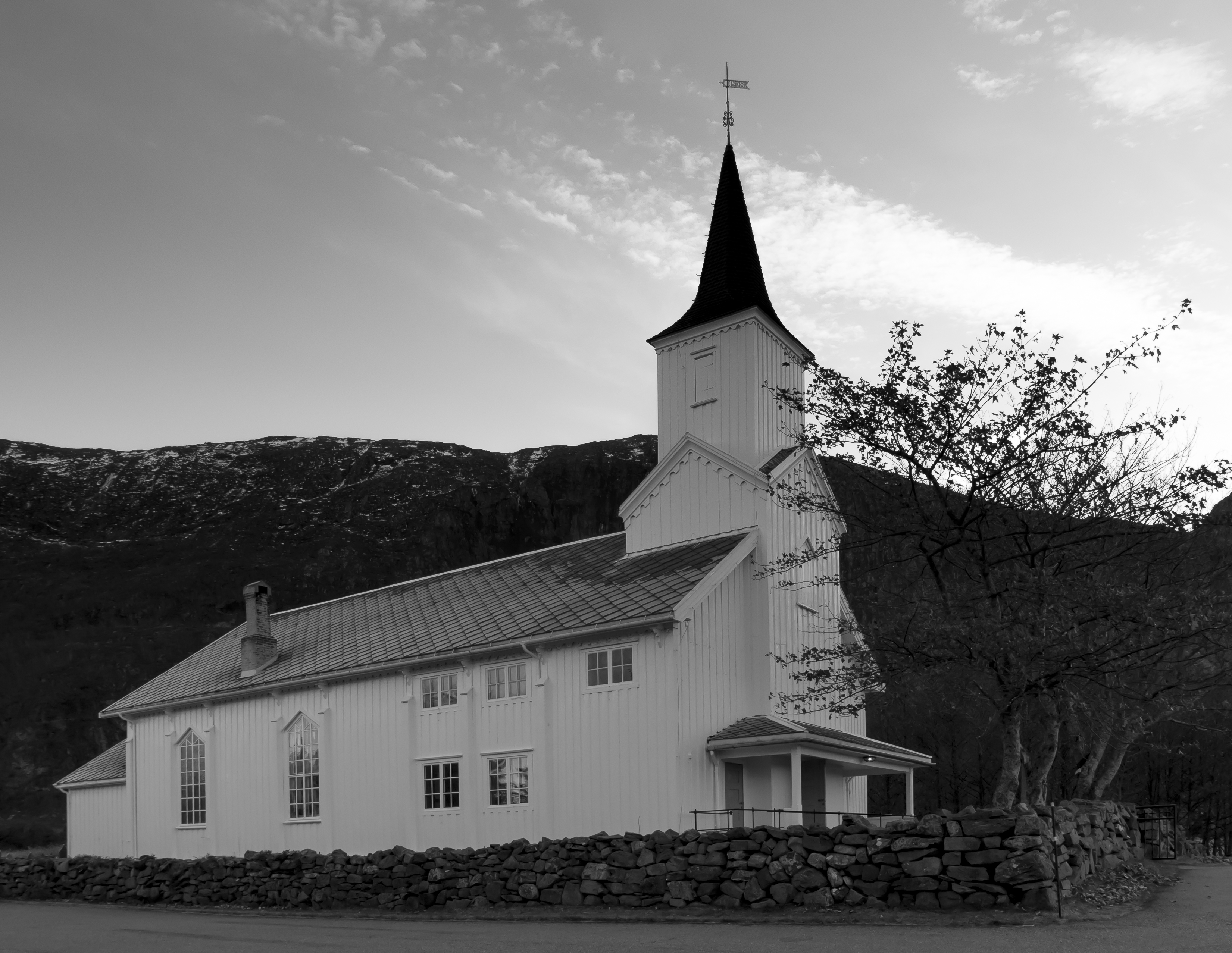 Otrøy Church from 1878 in Midsund, Møre og Romsdal county, Norway. Architect Jacob Wilhelm Nordan.